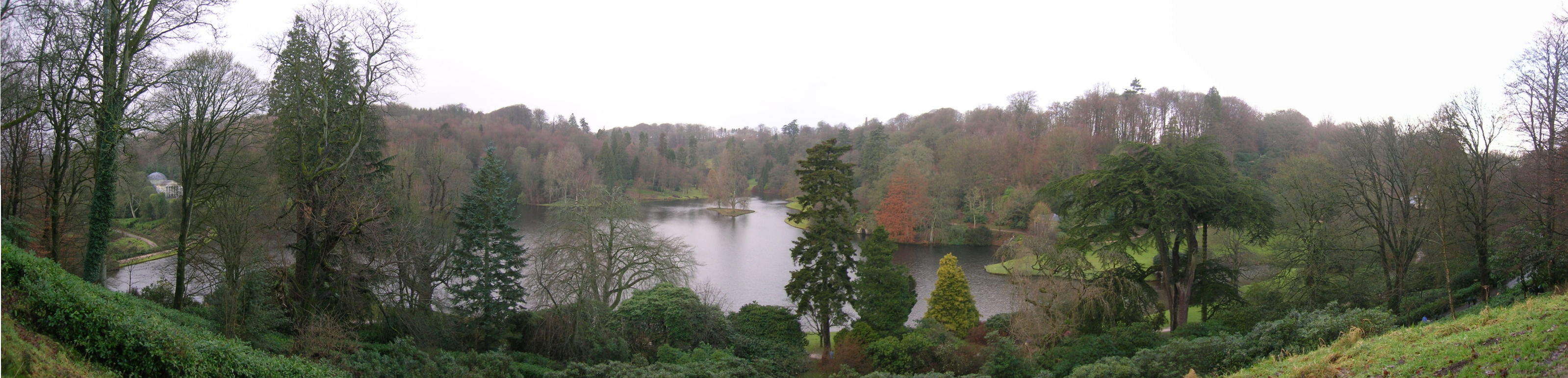 Stourhead, Wiltshire, UK.